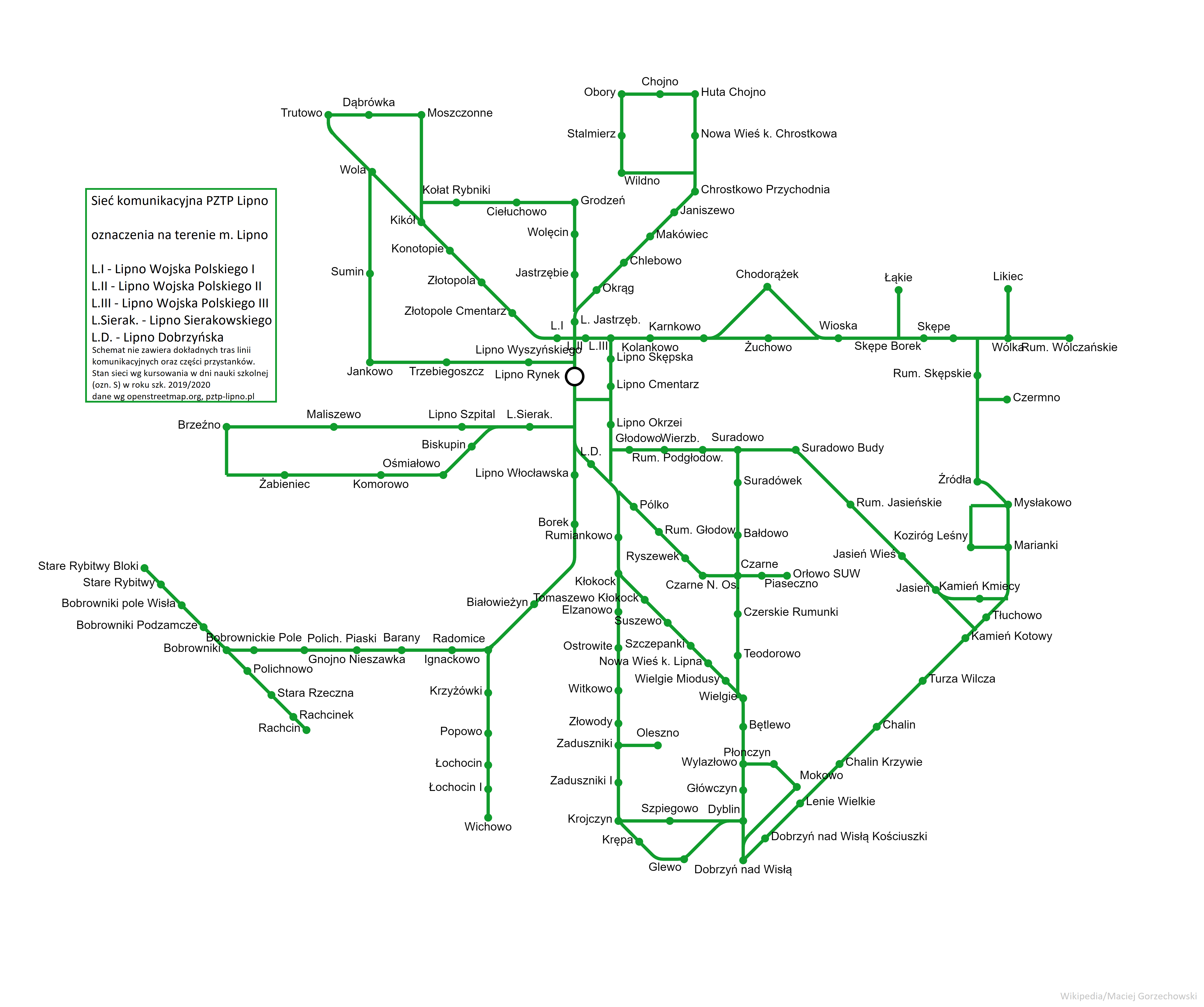 The scheme of local bus transportation operated by Lipno County, Poland during the school year of 2019/2020.